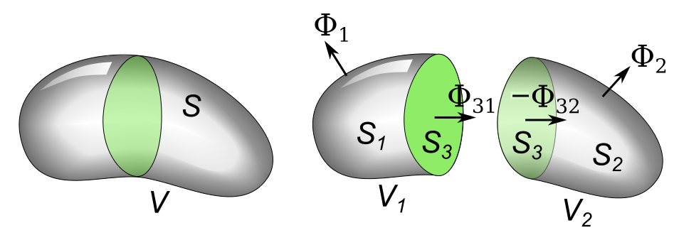 Diagram showing a volume V {\displaystyle V} split into two parts, V 1 {\displaystyle V_{1 and V 2 {\displaystyle V_{2 , illustrating that the flux Φ {\displaystyle \Phi } of a vector field out of the original volume is equal to the sum of the fluxes out of each component volume. This is because flux out of V 1 {\displaystyle V_{1 through surface S 3 {\displaystyle S_{3 is flux into V 2 {\displaystyle V_{2 , so the flux through S 3 {\displaystyle S_{3 cancels out. This is part of a series of diagrams illustrating the proof of the divergence theorem.